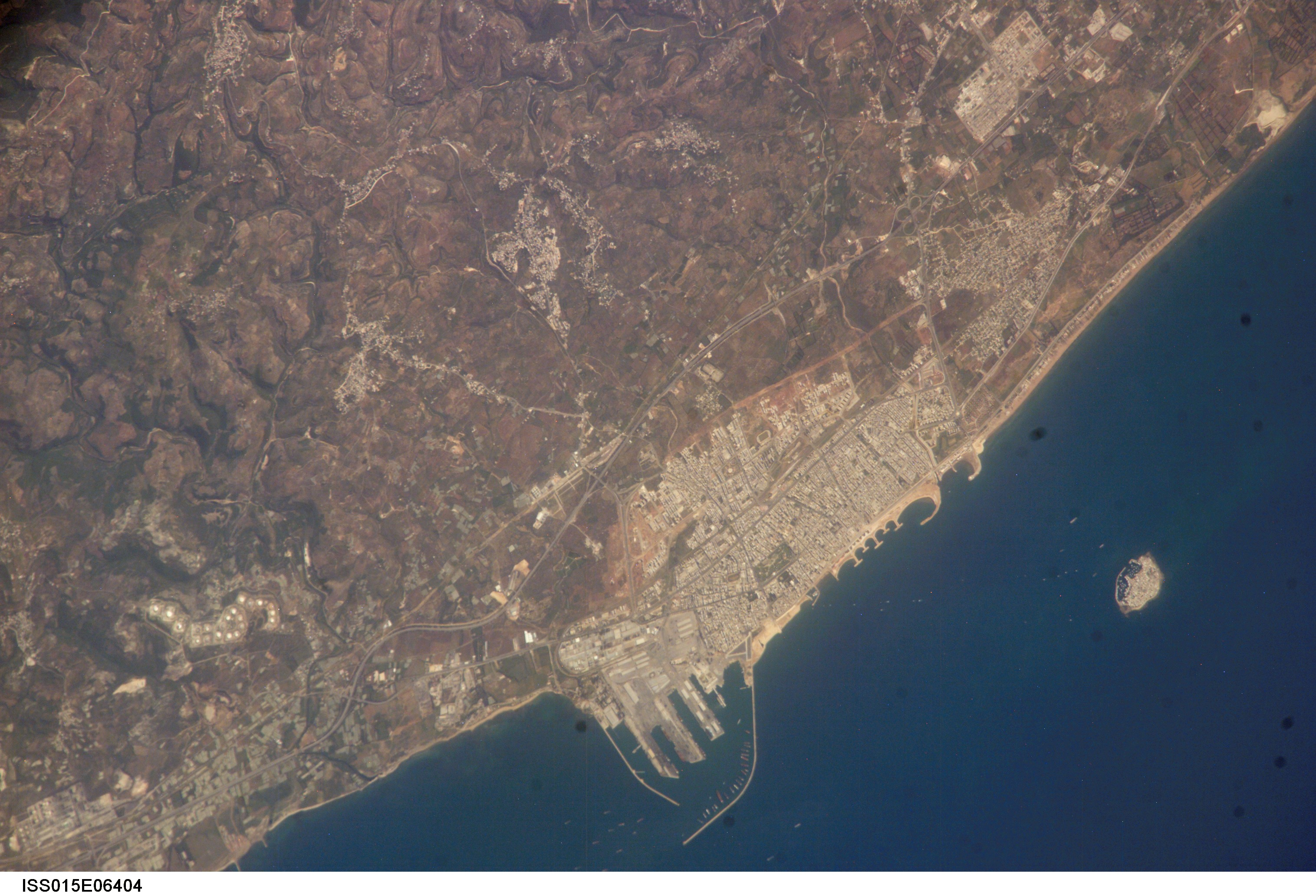 Photo of Tartus city and port, NASA 2007:05:04 07:05:58